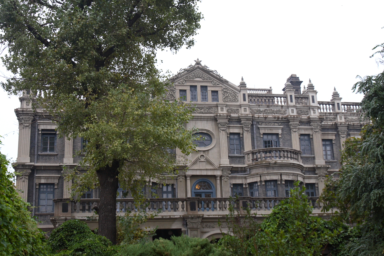 Zhang Zuolin and Zhang Xueliang's former residence, Shenyang